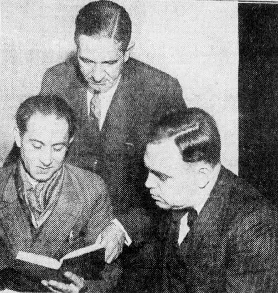 This photo of Wallace D. Fard, aka Wallie D. Fard (name was changed to "Ford" on draft card even though it was clearly signed FARD)